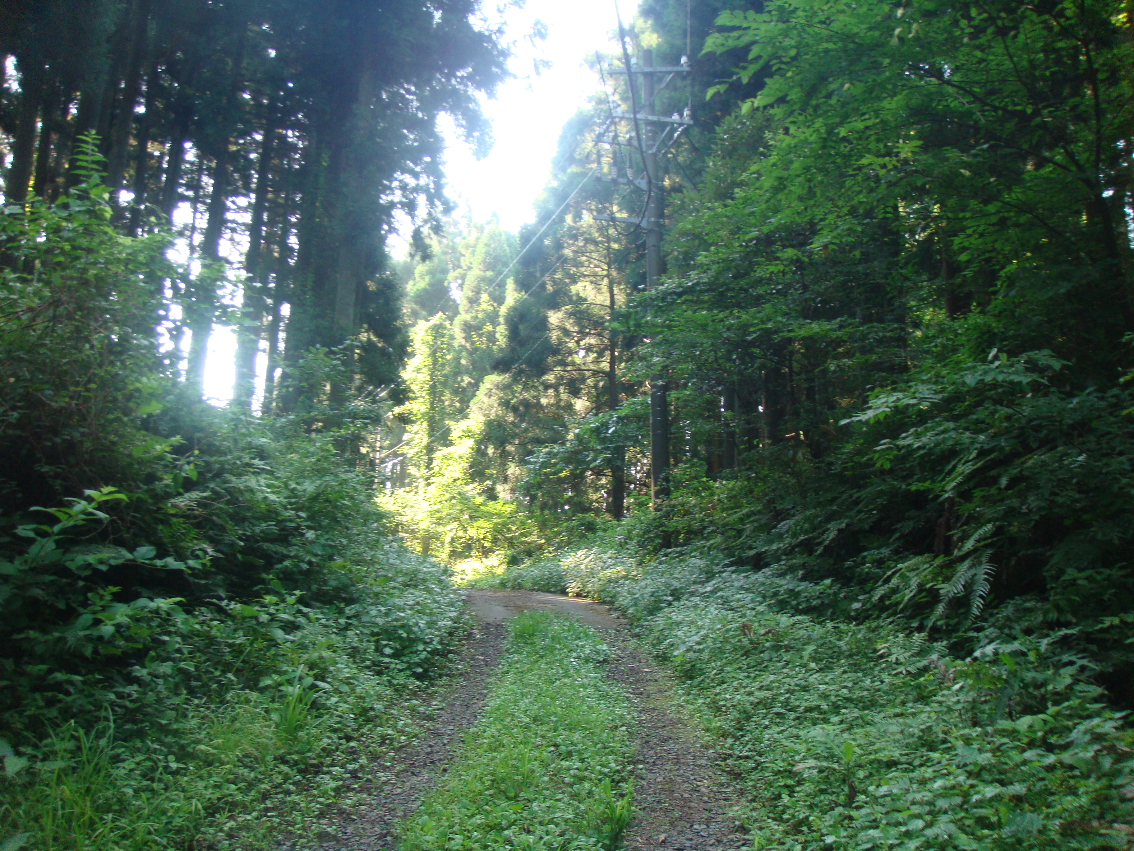 Utsurogi Pass Place - Itsuhata,Tsuruga City,Fukui Prefecture,Japan Date - July 16, 2011 Format - JPEG, 3648x2736pixel, 24bit colors Photographer - NALA Wiki (talk)